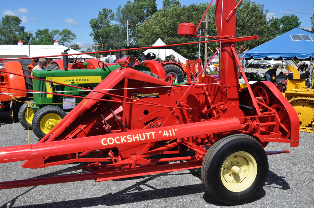 Cockshutt 411 trailed forage harvester, left side view.